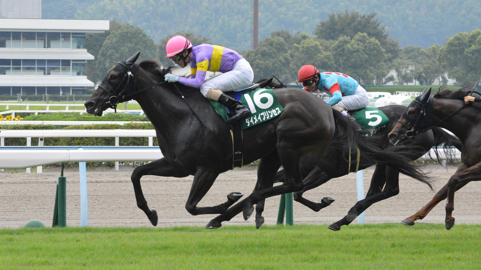 Japanese race horse Daimei Princess at Kokura racecourse.